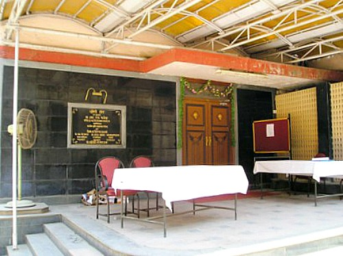 This modern Auditorium is unique features in Mumbai